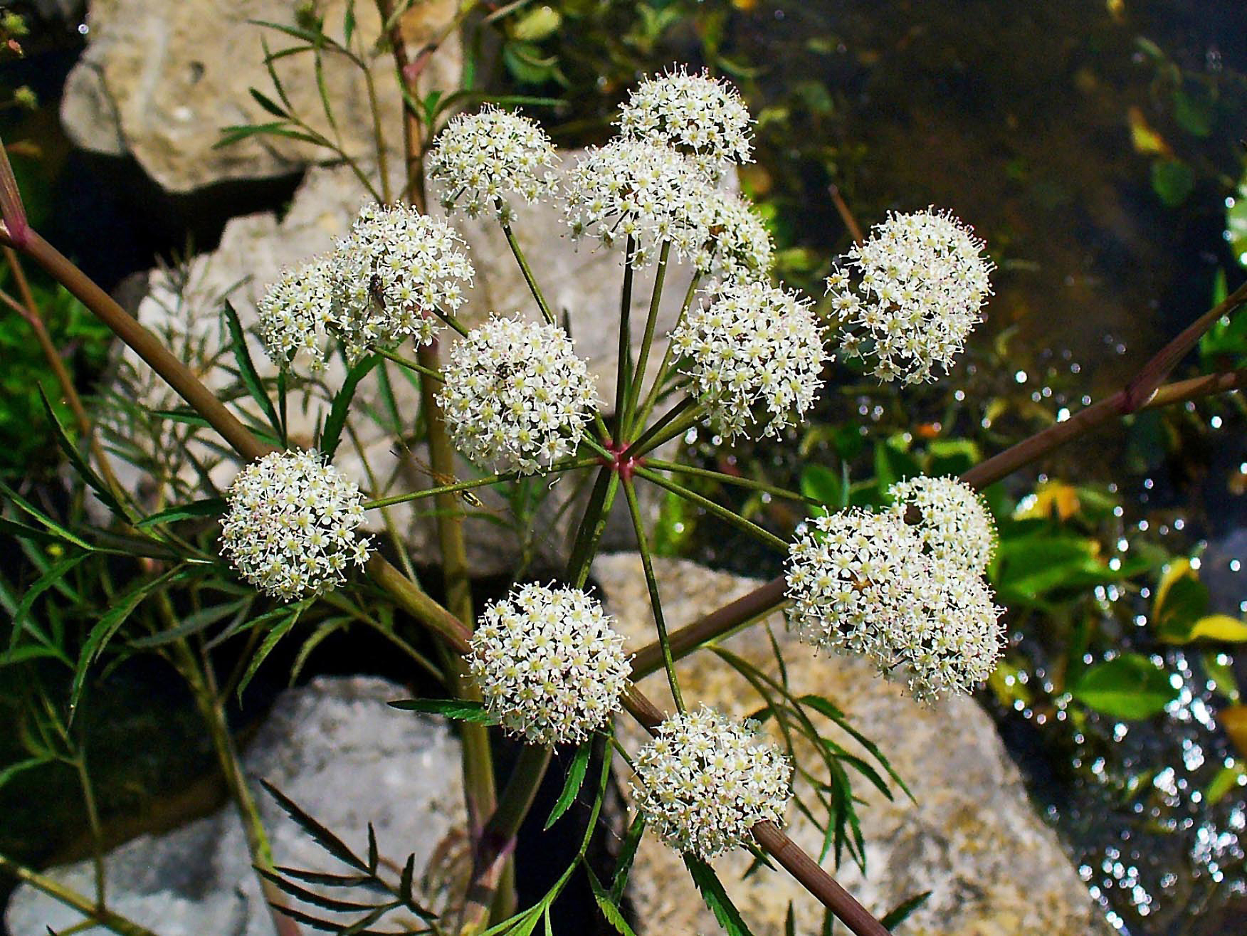 Cicuta virosa, Apiaceae, Cowbane, Northern Water Hemlock, inflorescence. The fresh subterranean parts of the blooming plant are used in homeopathy as remedy: Cicuta virosa (Cic.)